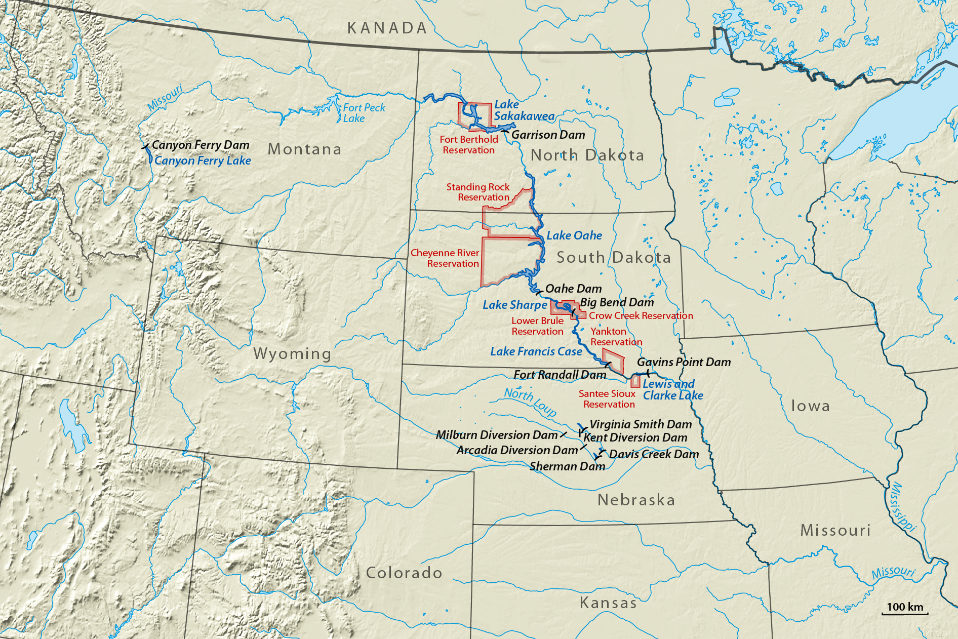 Missouri River stretching from Montana to Missouri with dams and reservoirs built in the Pick–Sloan Program and Indian reservations affected by reservoir flooding (red)